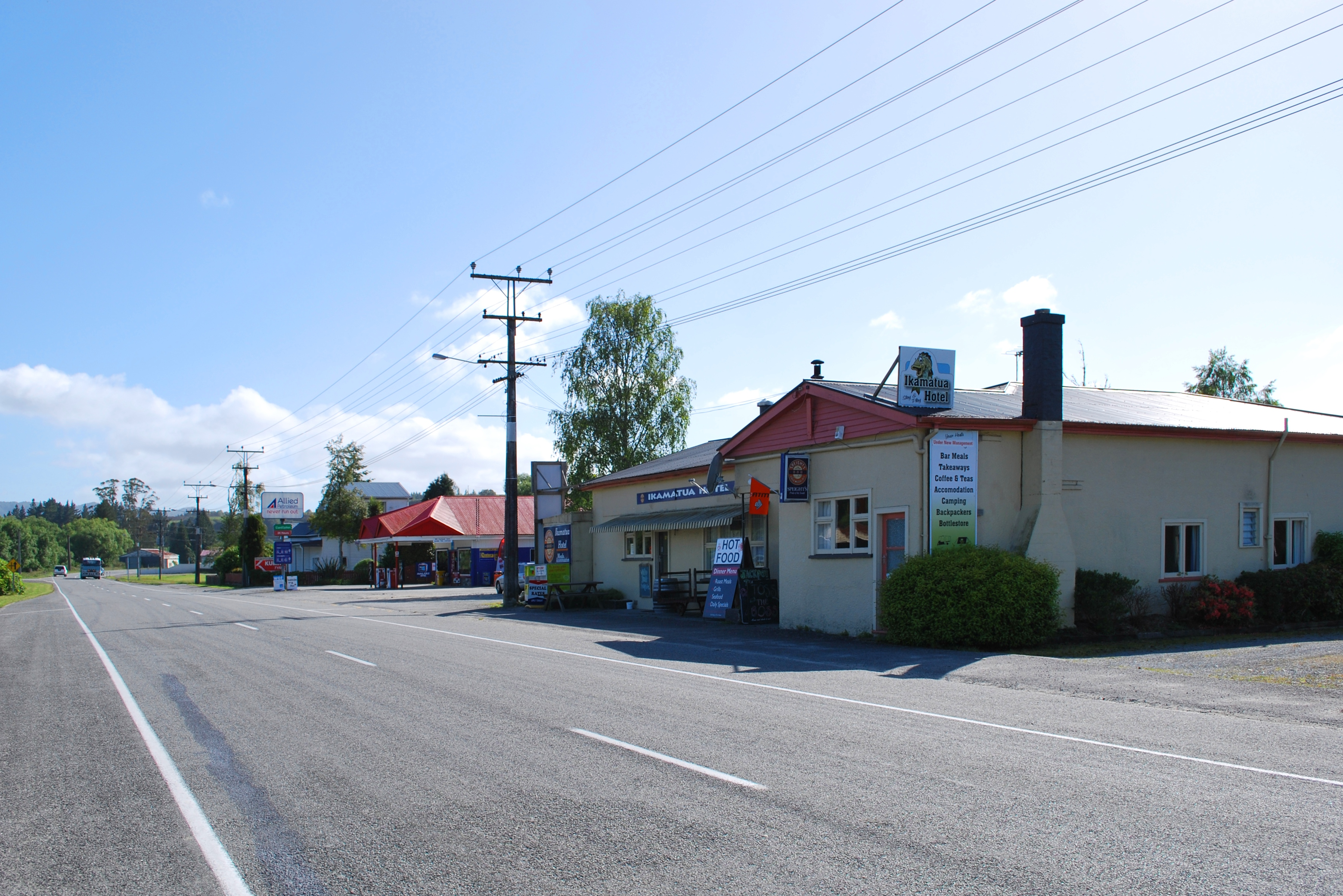 Ikamatua Hotel at Ikamatua, New Zealand